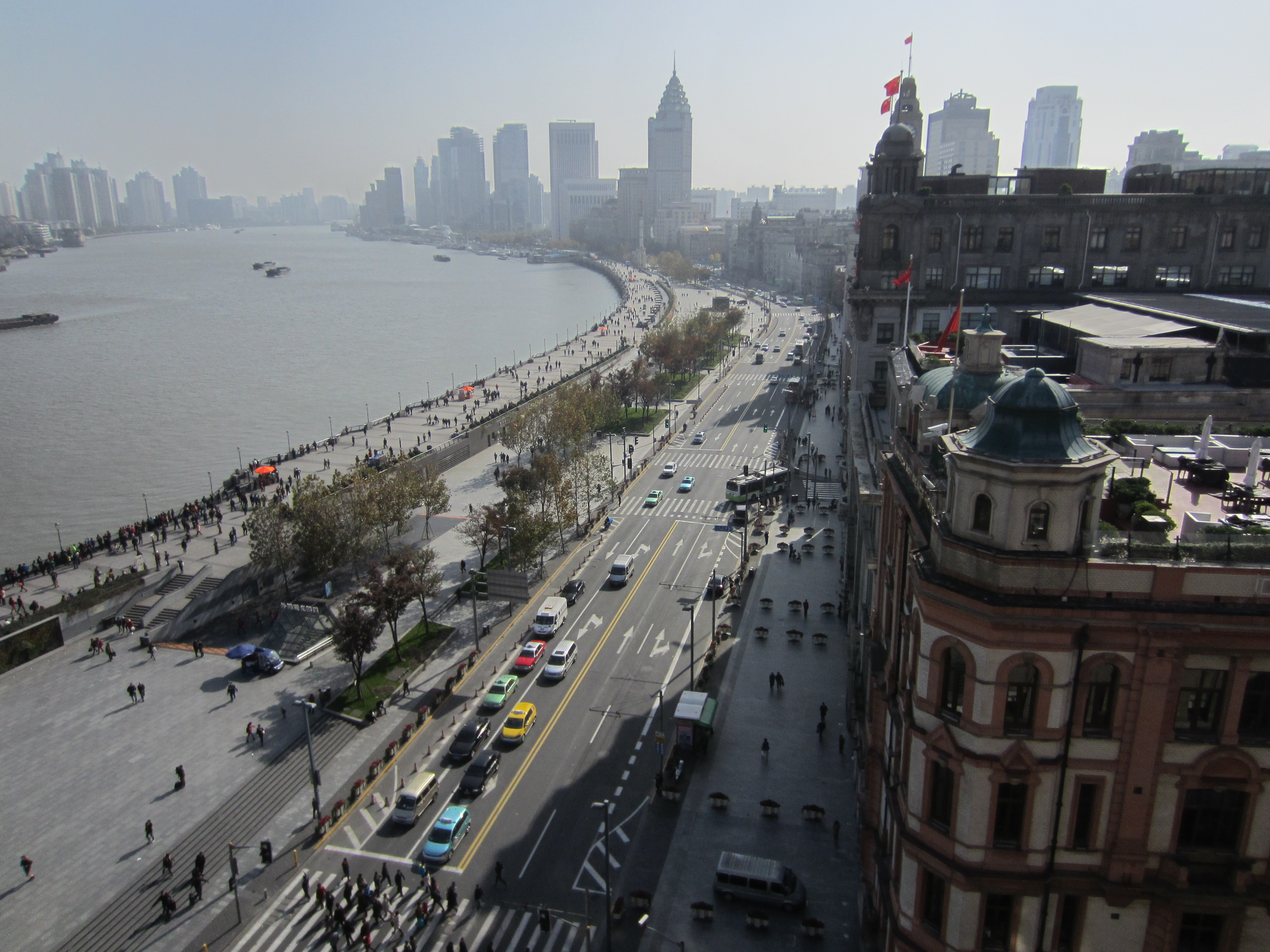 The Bund, Shanghai, China (December 2015)